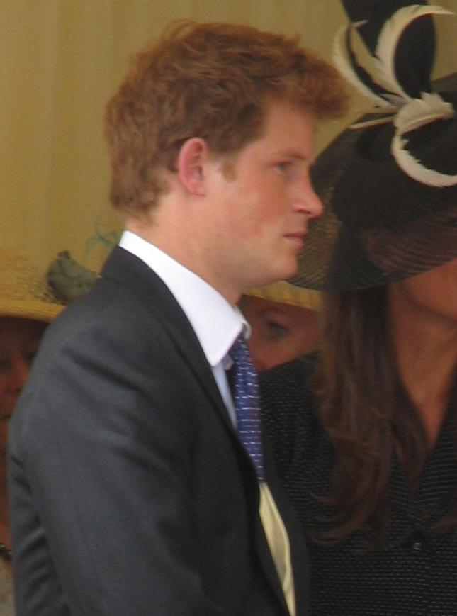 Prince Harry at the Garter Procession